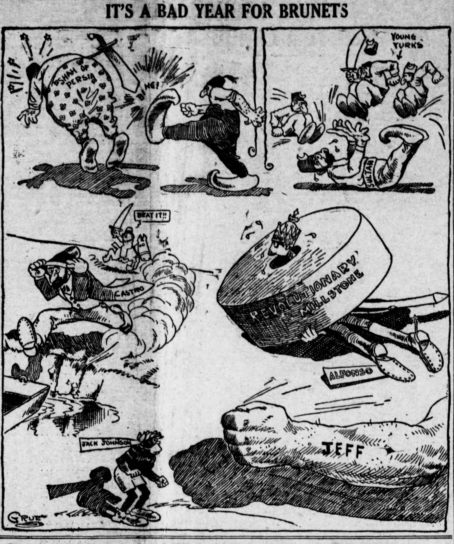 Editorial cartoon in the Tacoma Times, mocking the political troubles experienced by various dark-haired heads of state that year, and anticipating that black boxer Jack Johnson would likewise be defeated by white boxer James J. Jeffries; Johnson won in the 15th round.